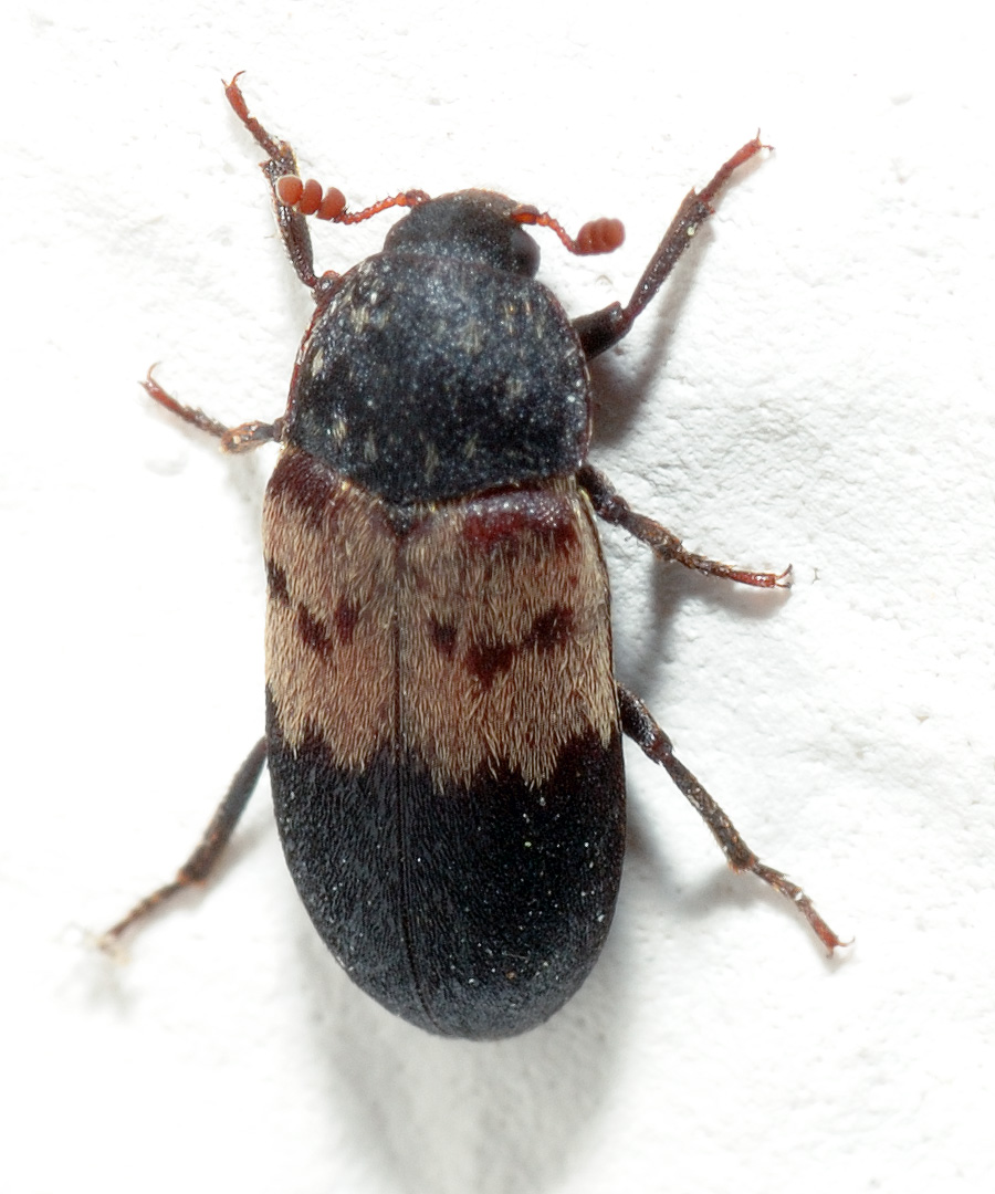 This image shows an about 0.2 inch (5.5 mm) long Bacon Beetle (Dermestes lardarius). Thanks to Doc Taxon for identifying this animal.